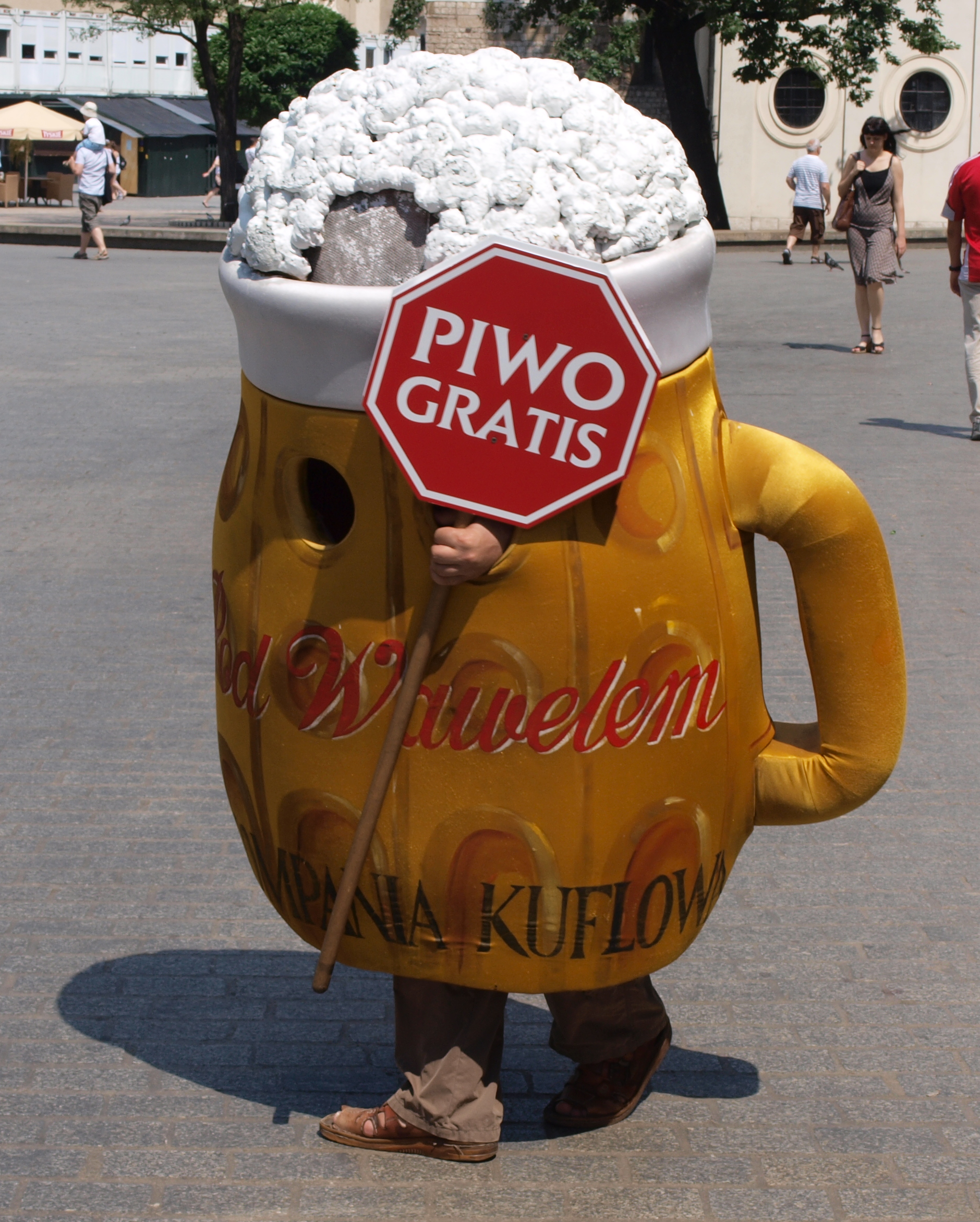 An advertising mascot dressed as a mug of beer, holding a sign saying "Piwo gratis" (Polish for "free beer") in the centre of Kraków, Poland.